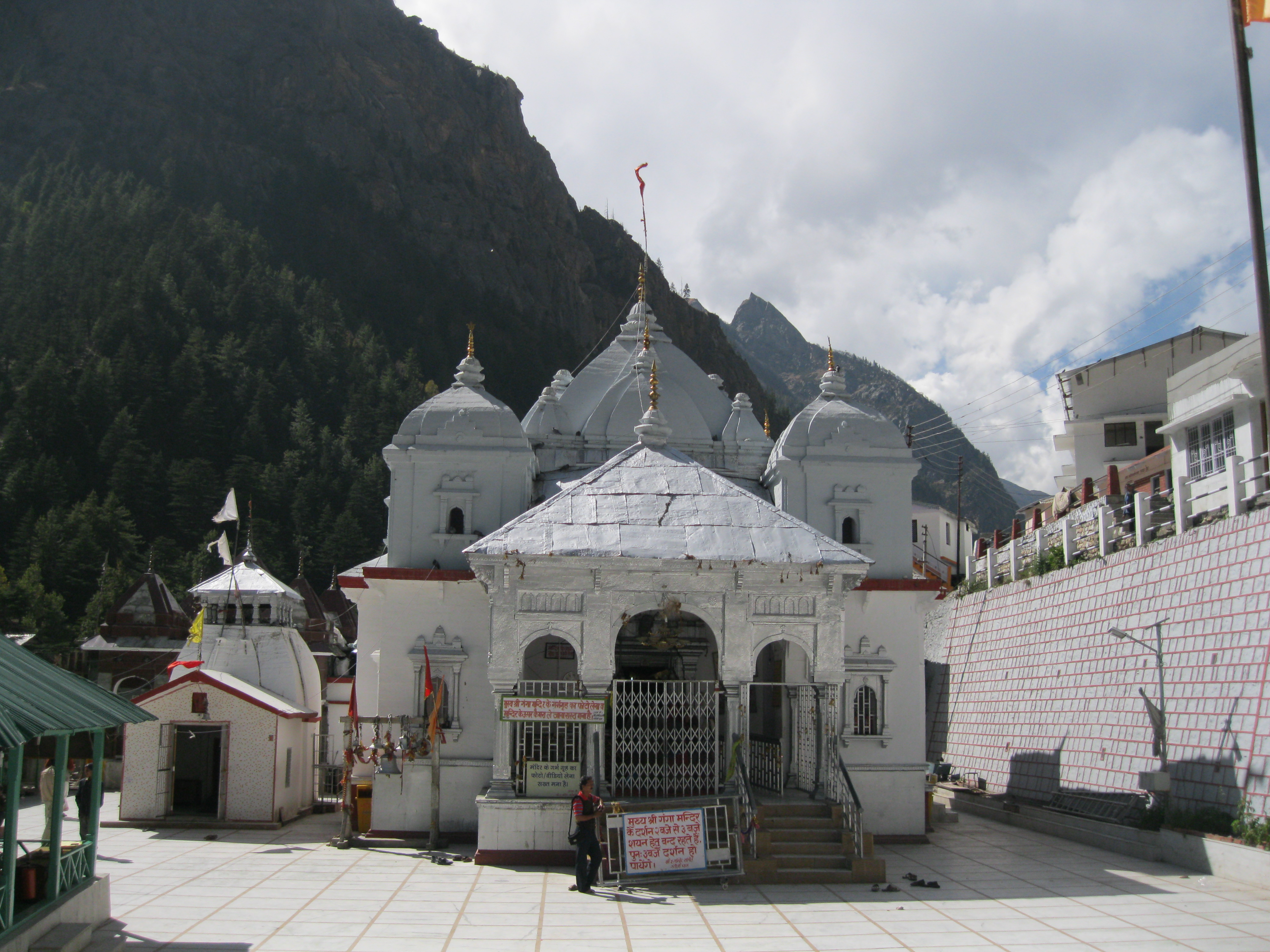 gangothri temple at gangothri , india